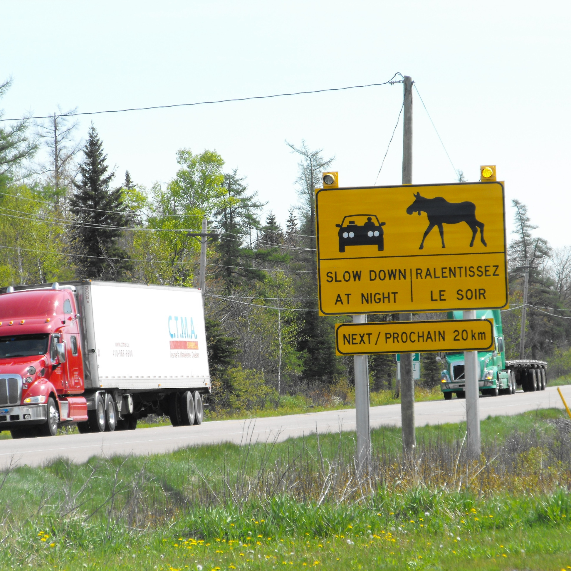 Moose Warning sign on NB Route16, New Brunswick